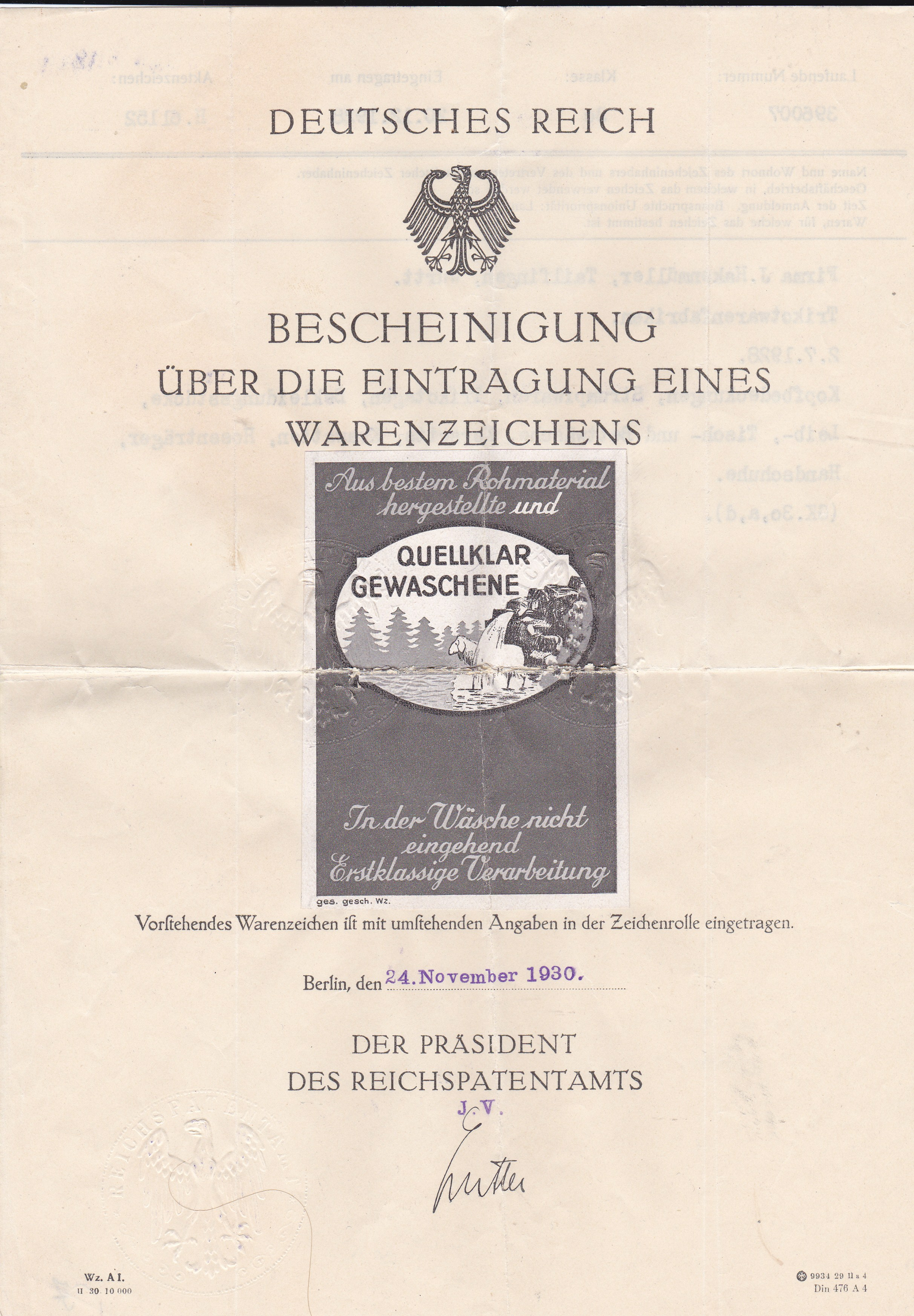 The official by the German patent-office given document for the 1887 in (the today) Albstadt-Tailfingen in South-Western-Germany founded textile-enterprise J. Hakenmüller for the with its own "source clearly washed textiles - not reducing while washing and with first class manufacturing".